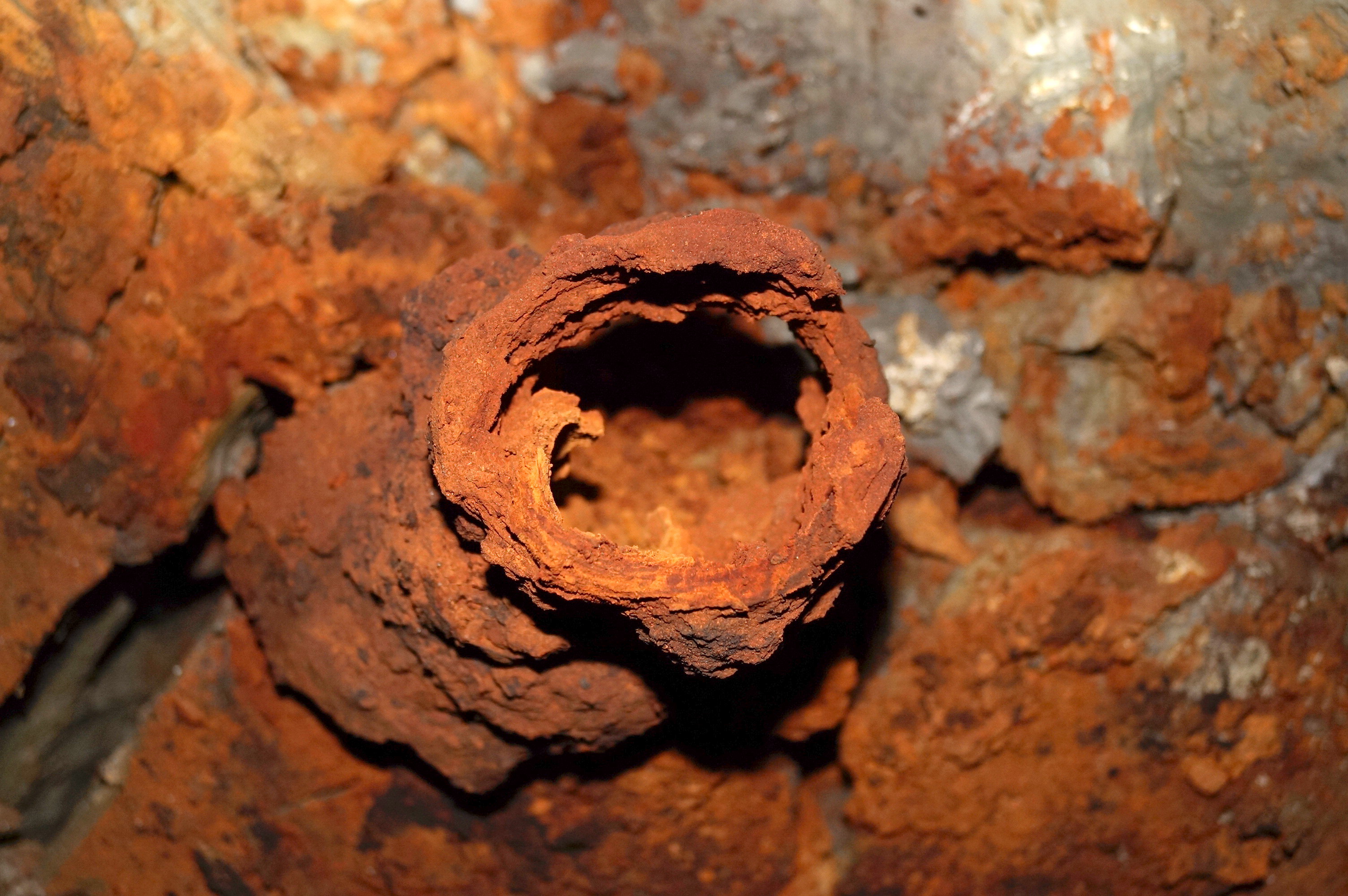 Iron-manganese stalagmite in Zolushca Cave (Emil Racovita), karst gypsum cave located in Moldova, v. Criva.